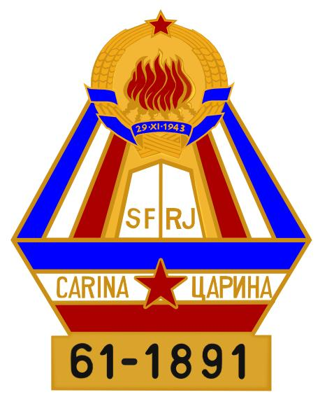 Emblem of Federal Cusotms Service (SFRJ, 1976). Based on descriptions in the code Službeni list SFRJ 14/1976.lower part contains digital identification of Customs official. Two numers on the left represent Customs office; look in: Mikulan, Krunoslav; Smutni, Emil: Znakovlje carinske službe FNRJ/SFRJ. OBOL, letnik XLVII, no. 61, pg. 47–53. The other digits are persobnal number of Customs official.